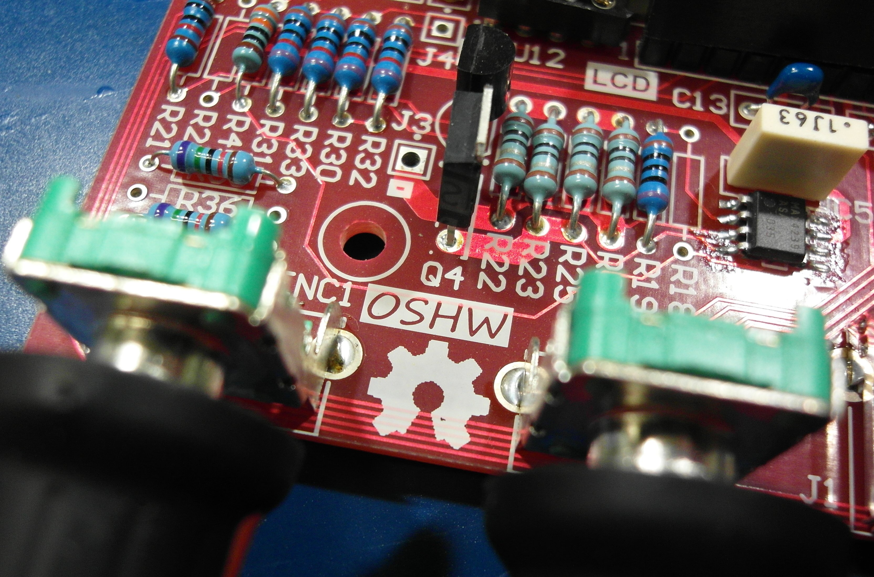 An Open Source Hardware (OSHW) logo proudly displayed on the silkscreen of a propulated project PCB, the uSupply by EEVblog